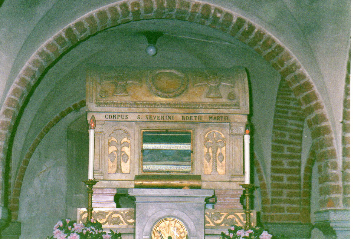 The tomb of philosopher Severinus Boetius in the crypt of the church of San Pietro in Pavia, Italy.